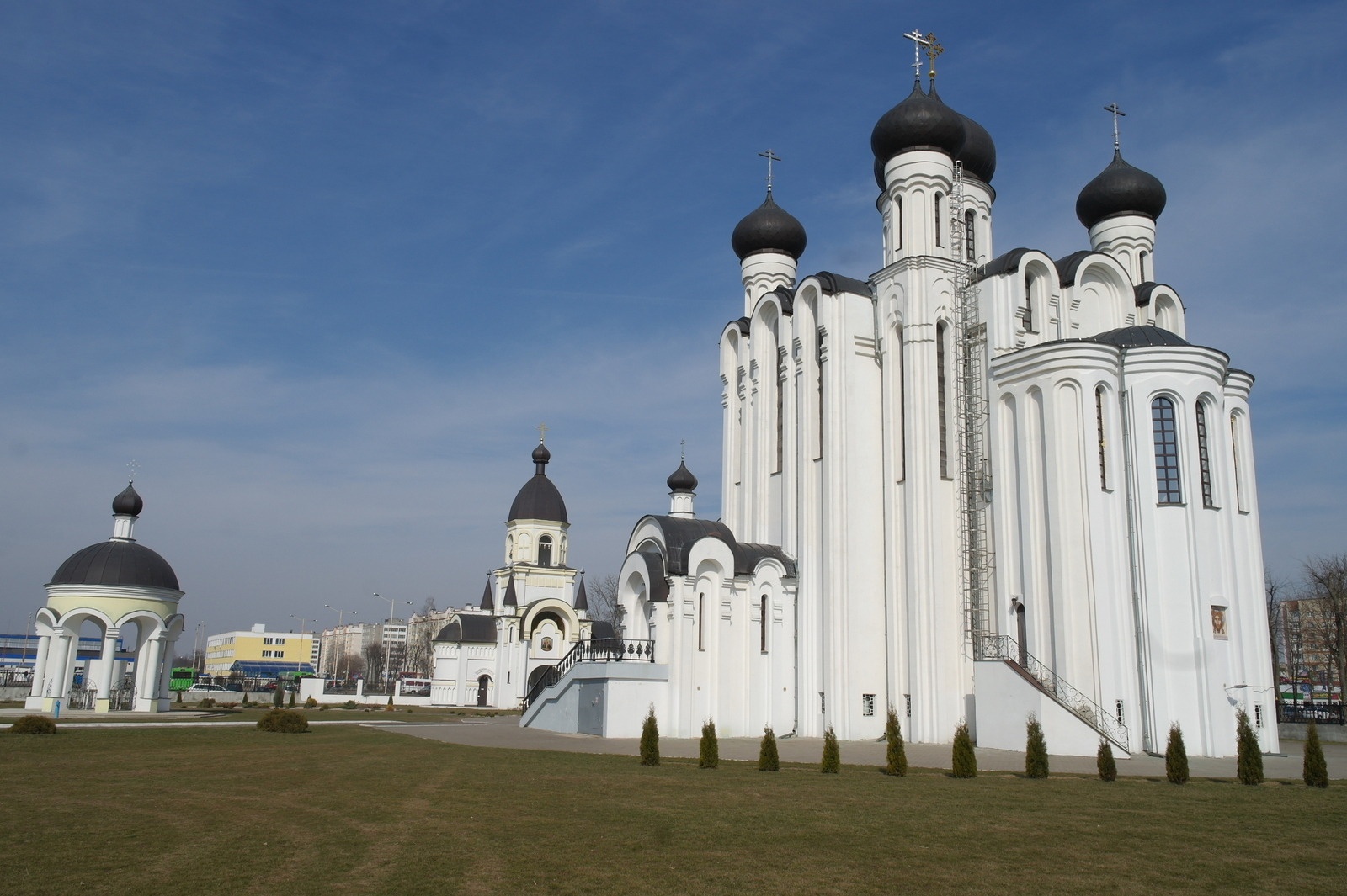 Saint Alexander Nevsky Orthodox Church, 108 Thälmann str., Baranovichi city. Built in 1998. The church.